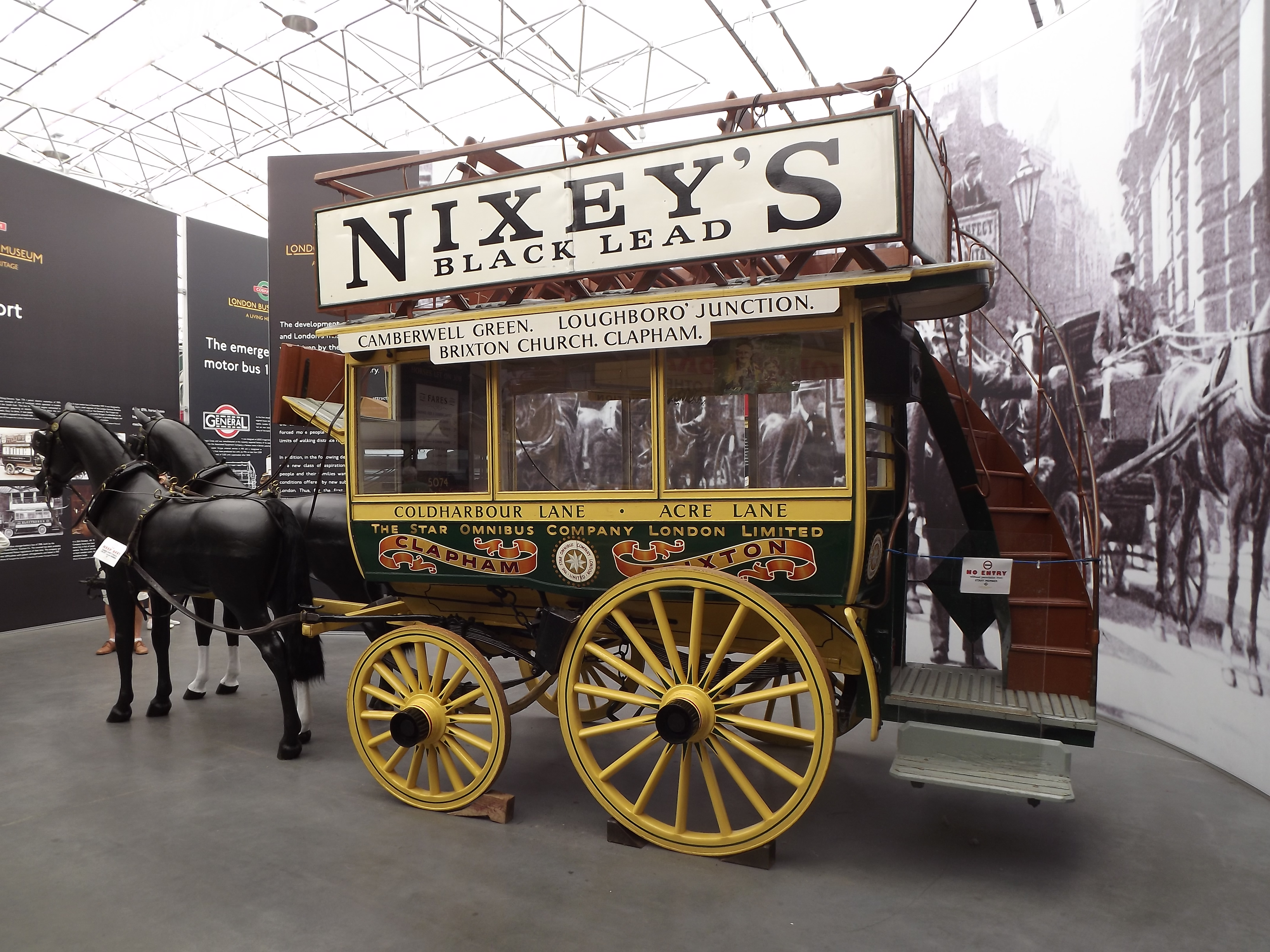 Clapham Omnibus. Historic London Transport horse bus in the Cobham Shed.